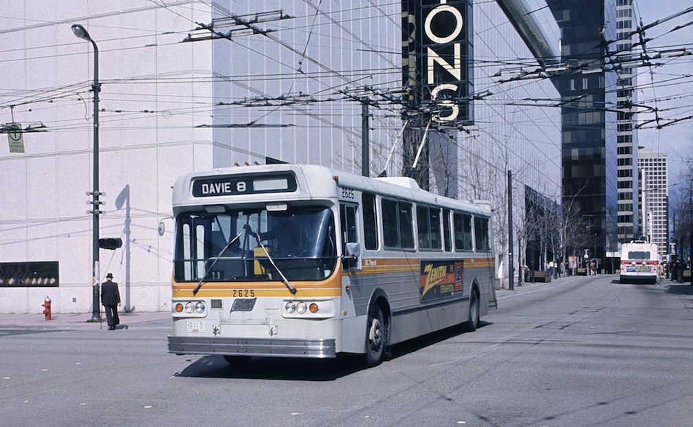 Vancouver trolleybus 2625, a 1976 Flyer E800, southbound on the Granville Mall at Robson Street in 1983, on route 8-Davie. It was still wearing its original paint scheme. The last Flyer E800 trolleybuses in Vancouver's fleet operated in service for the last time in January 1987. They had a shorter lifespan than most trolleybuses, because they had, when new, been fitted with electrical equipment recycled from 1950 CCF-Brill trolleybuses.